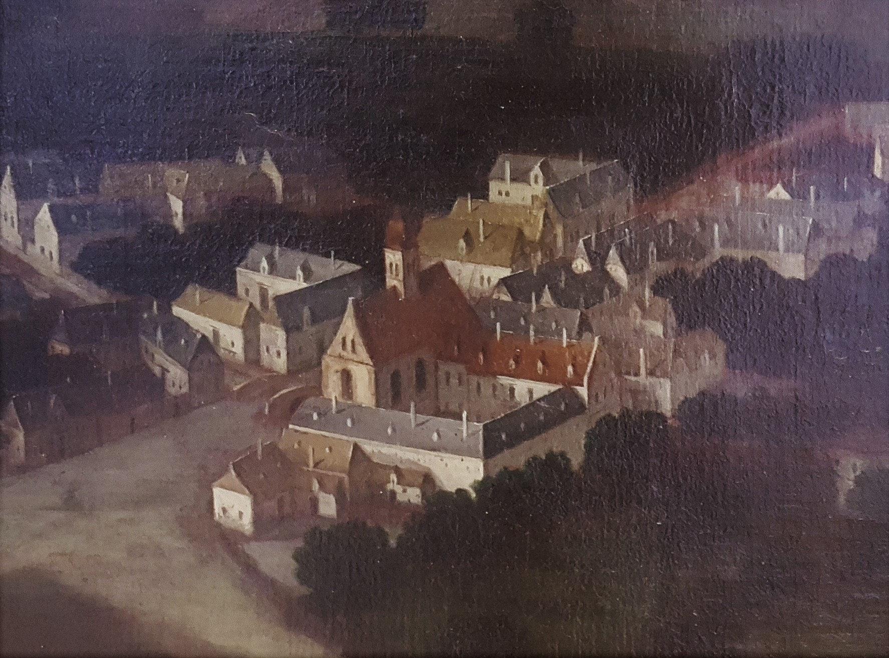 Saints Ulrich and Procopius church, Brno, Czech Republic